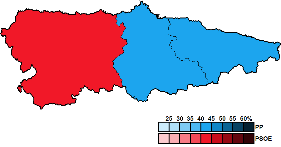 District results for the 1995 Asturian regional election.